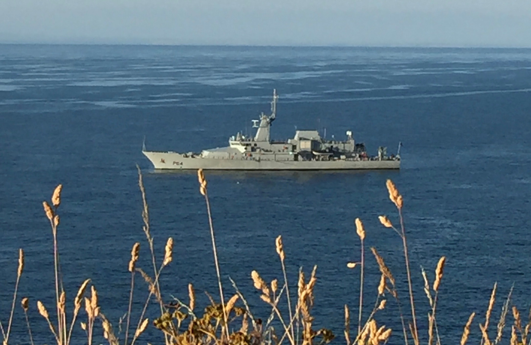 LÉ George Bernard Shaw (P64) off Ilfracombe in July 2018